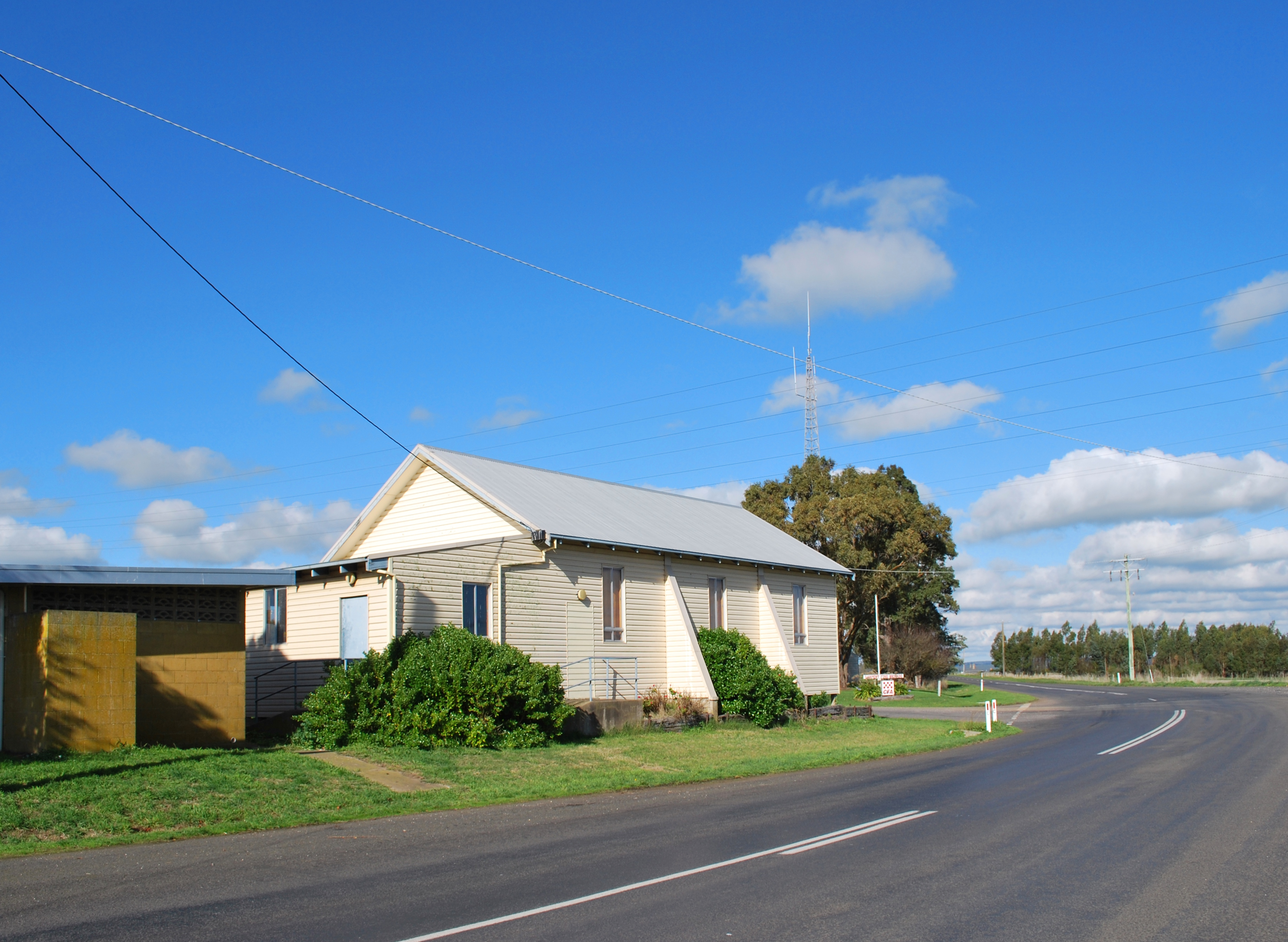 Memorial hall at Larpent, Victoria